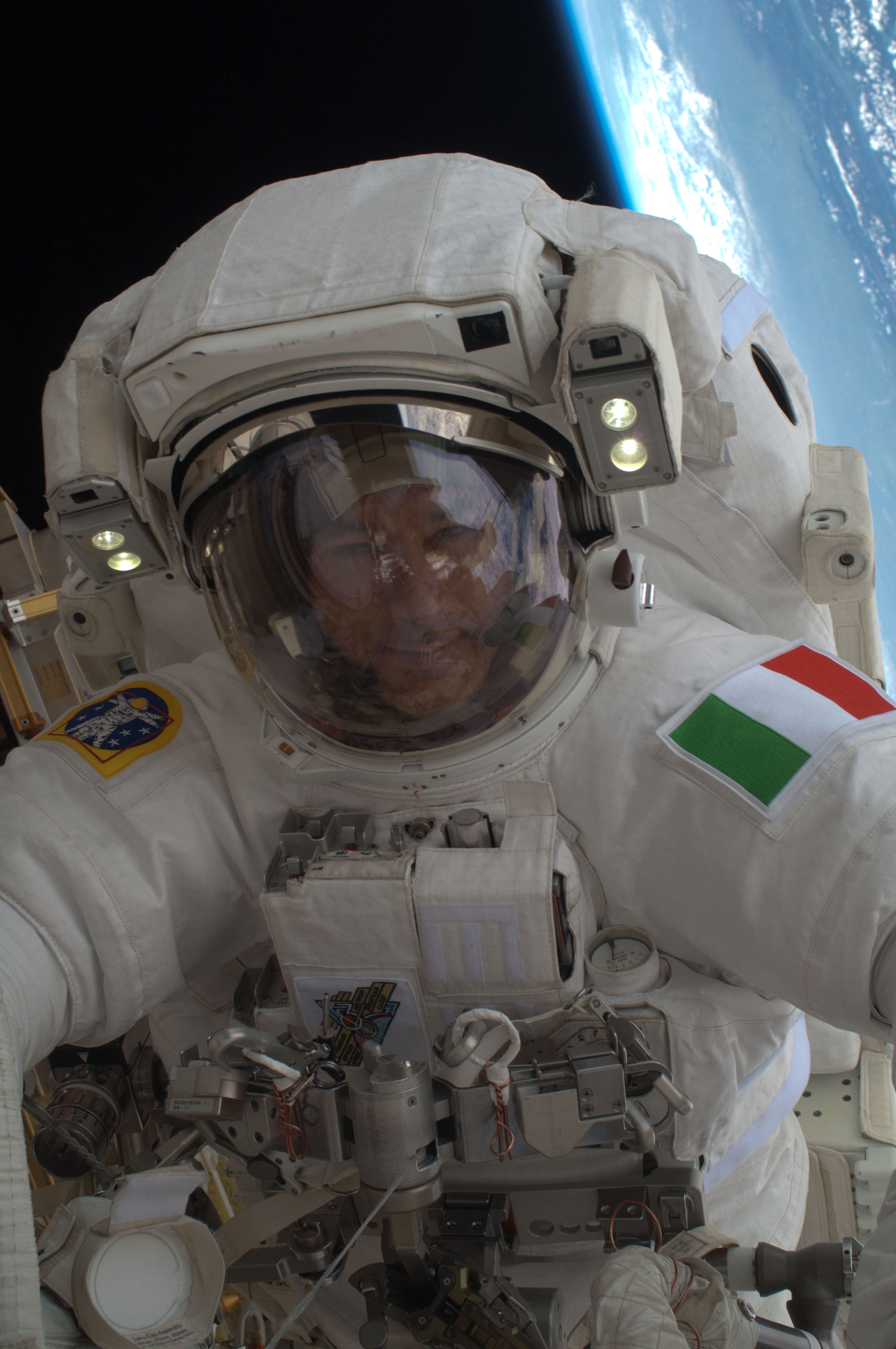 European Space Agency astronaut Luca Parmitano, Expedition 36 flight engineer, participates in a session of extravehicular activity (EVA) as work continues on the International Space Station. During the six-hour, seven-minute spacewalk, Parmitano and NASA astronaut Chris Cassidy (out of frame), flight engineer, prepared the space station for a new Russian module and performed additional installations on the station's backbone.